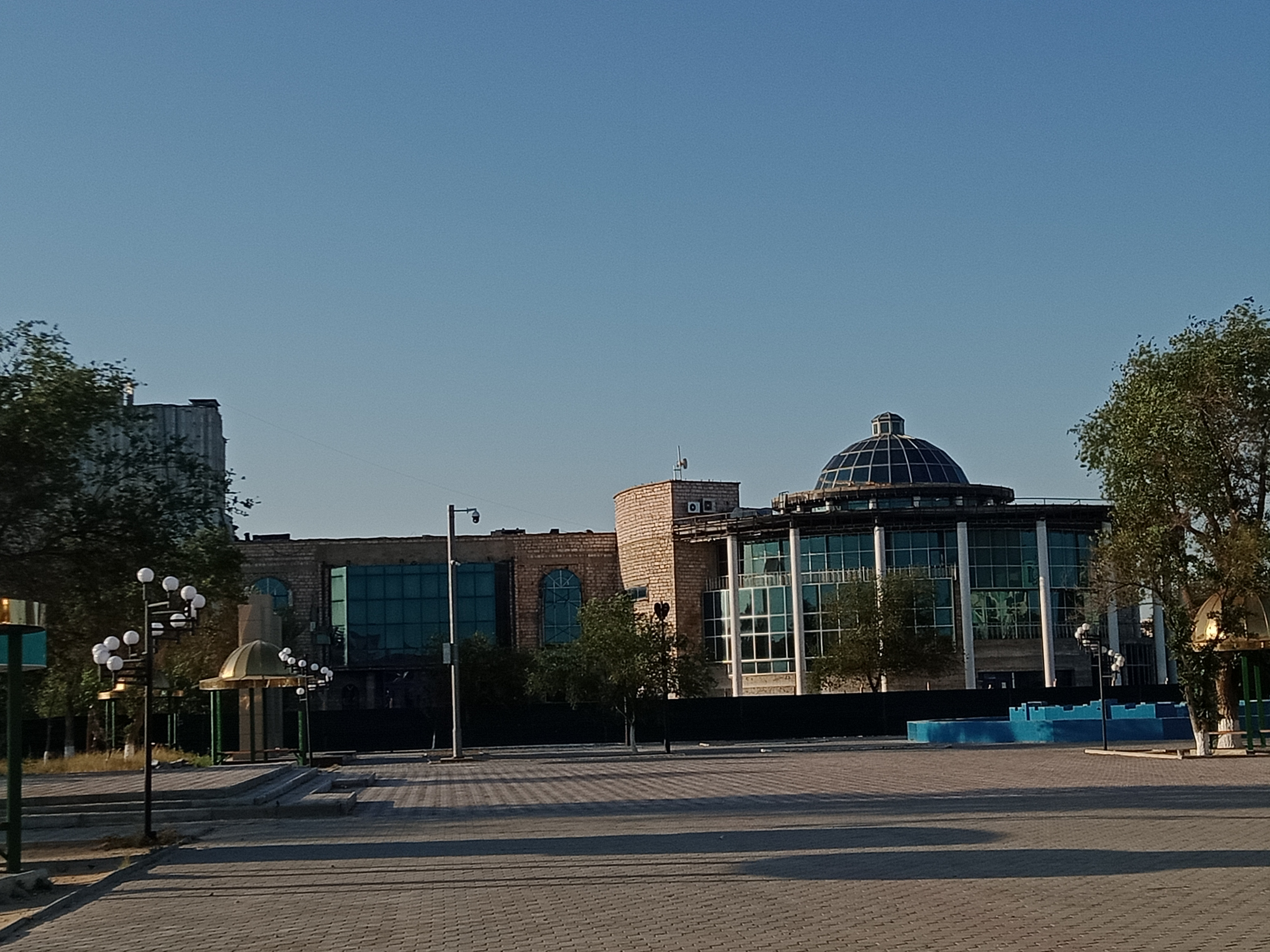 House of culture "Munaishy" in Zhanaozen